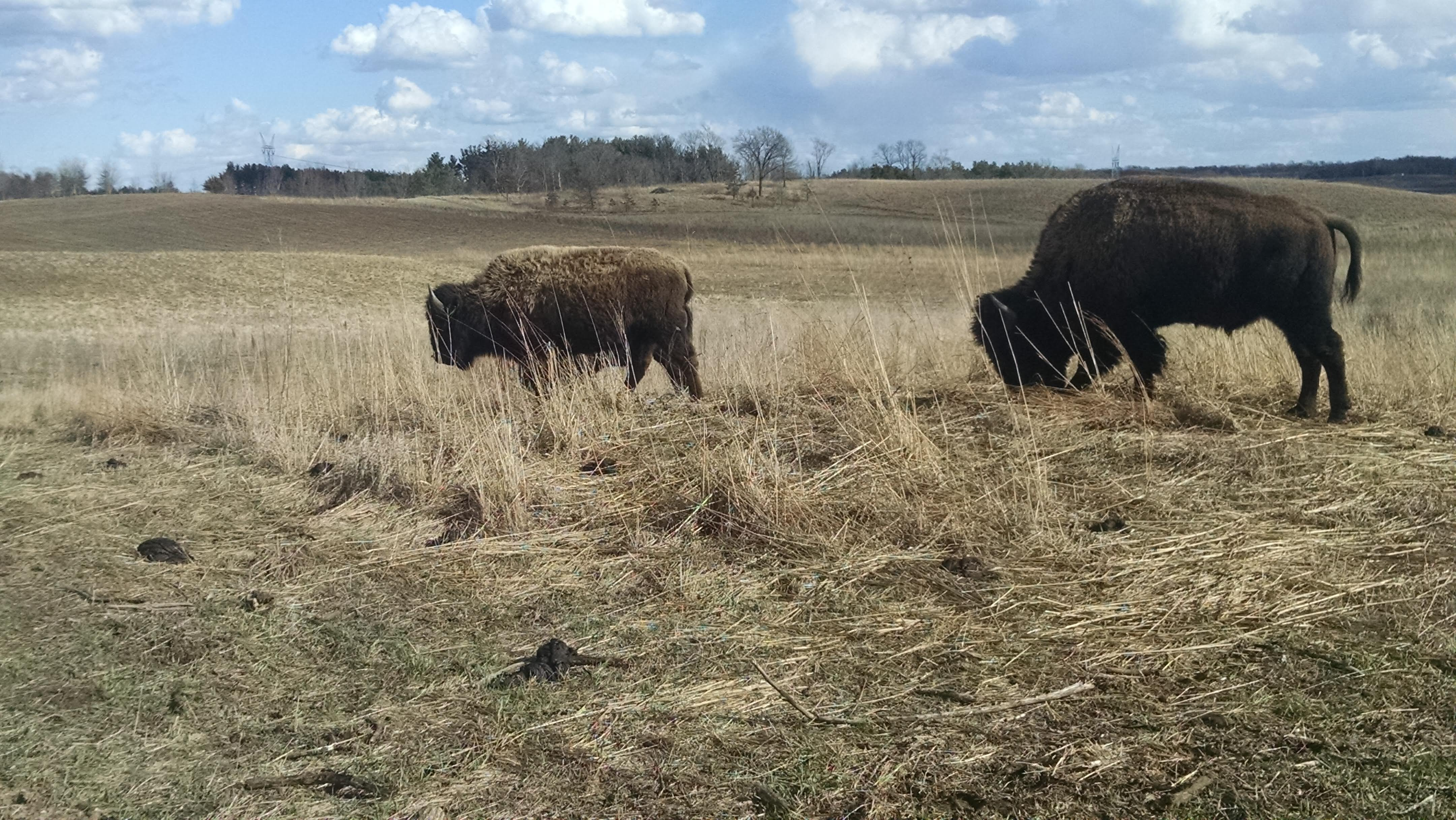 Bison at Nachusa Grasslands in 2016